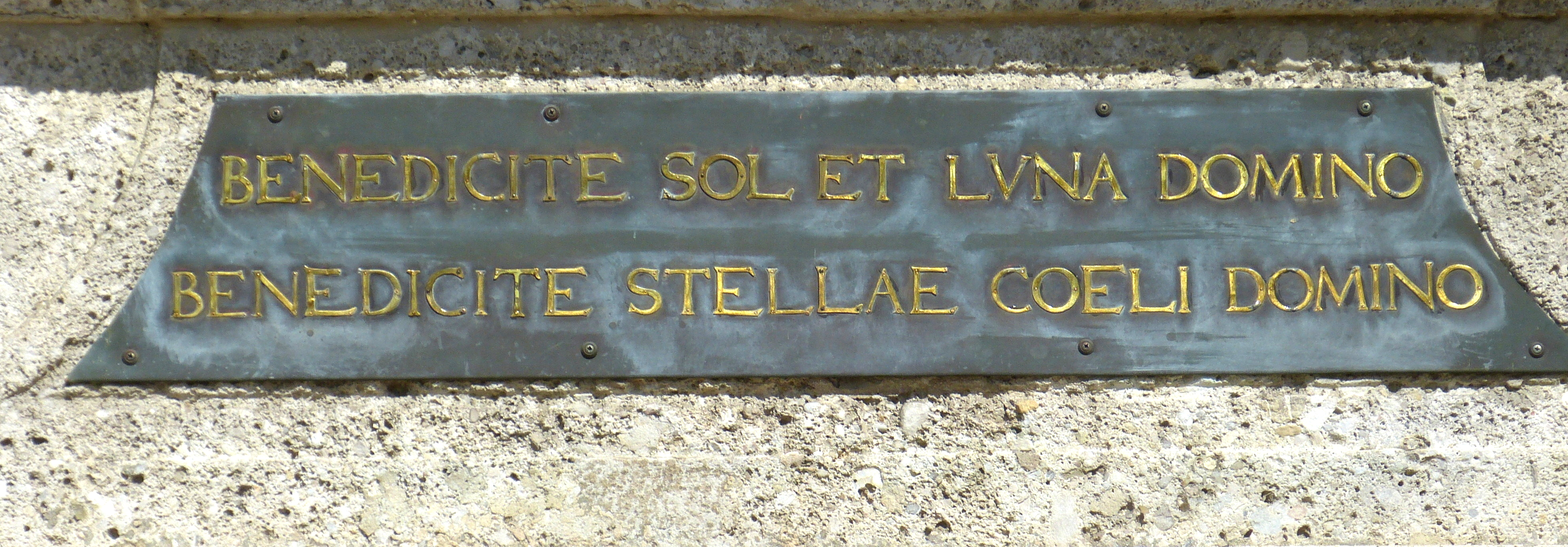 Kremsmünster abbey ( Upper Austria ). Observatory ( 1758 ) - Baroque portal: Latin quotation of the "Benedicite"-canticle. "Praised the Lord, sun and moon, praised the Lord, stars in heaven".